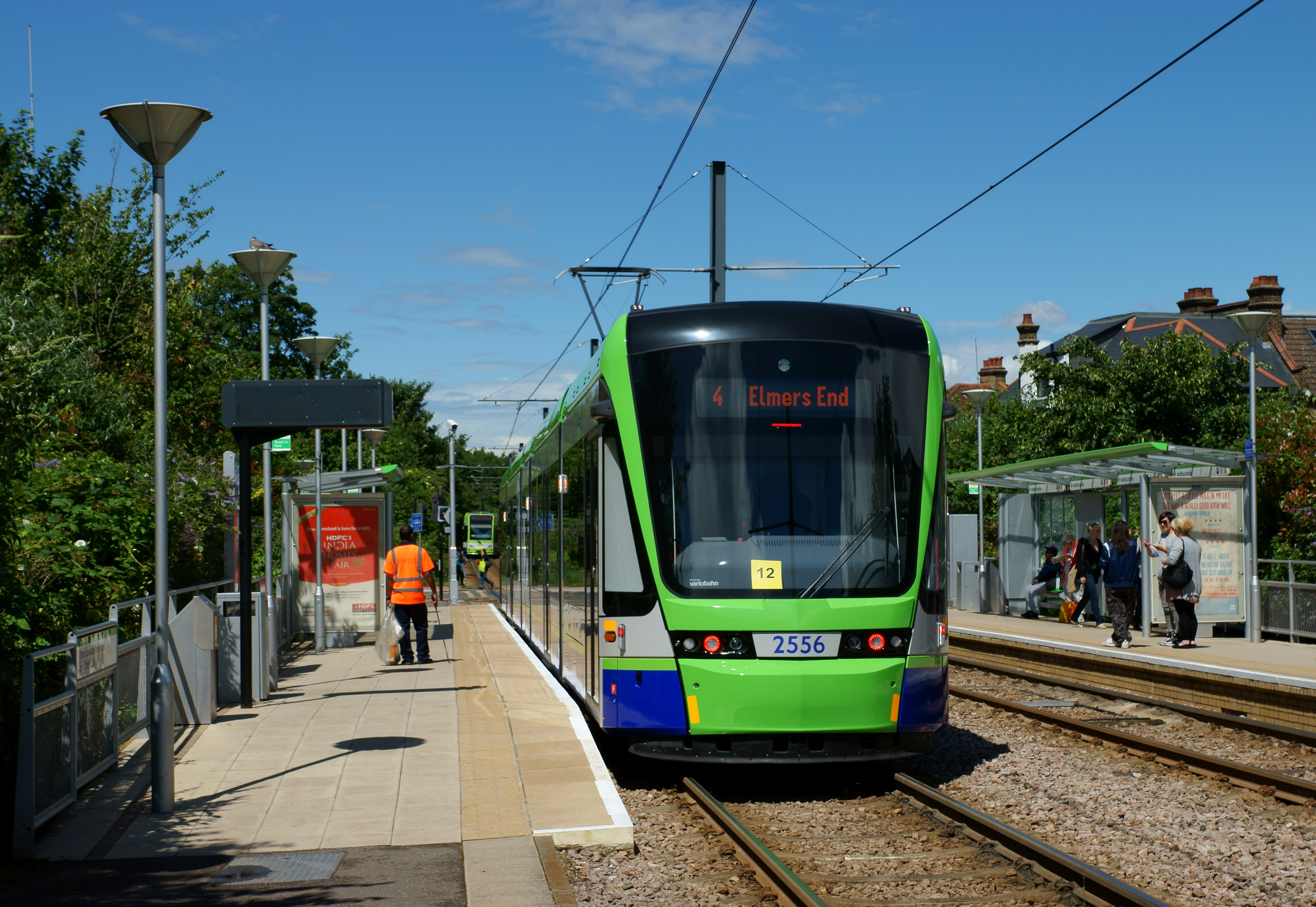 Stadler Variobahn Tram at Addiscombe